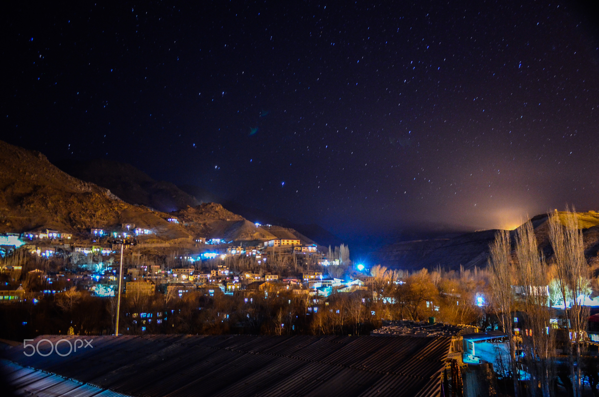 incrediable landscape view of kargil at night stars lights